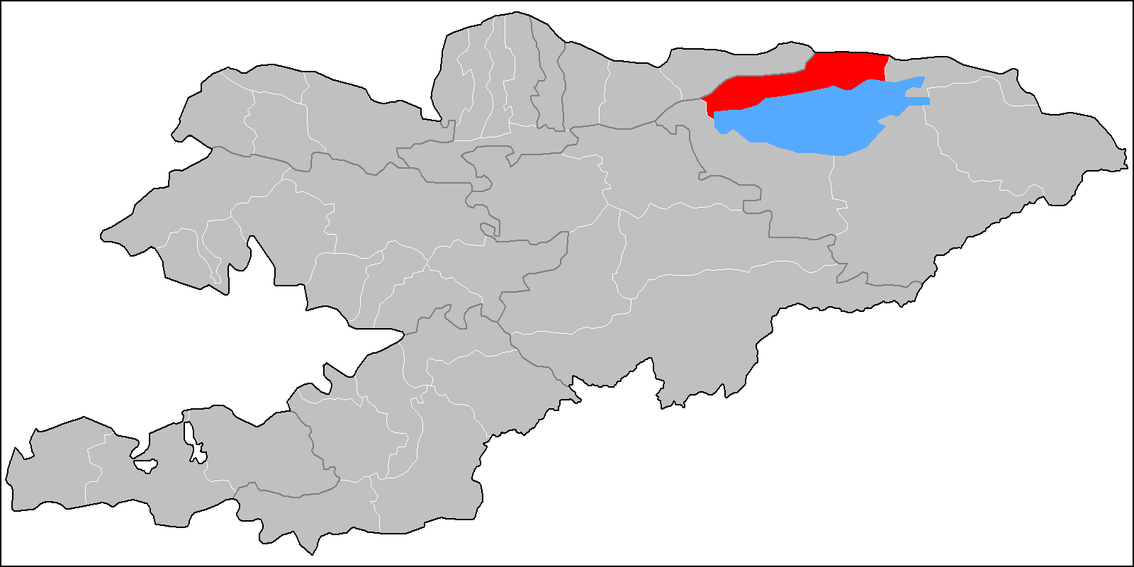 The location of the raion (district) of Ysyk-Köl in Kyrgyzstan. Based on Image:Kyrgyzstan raions.png